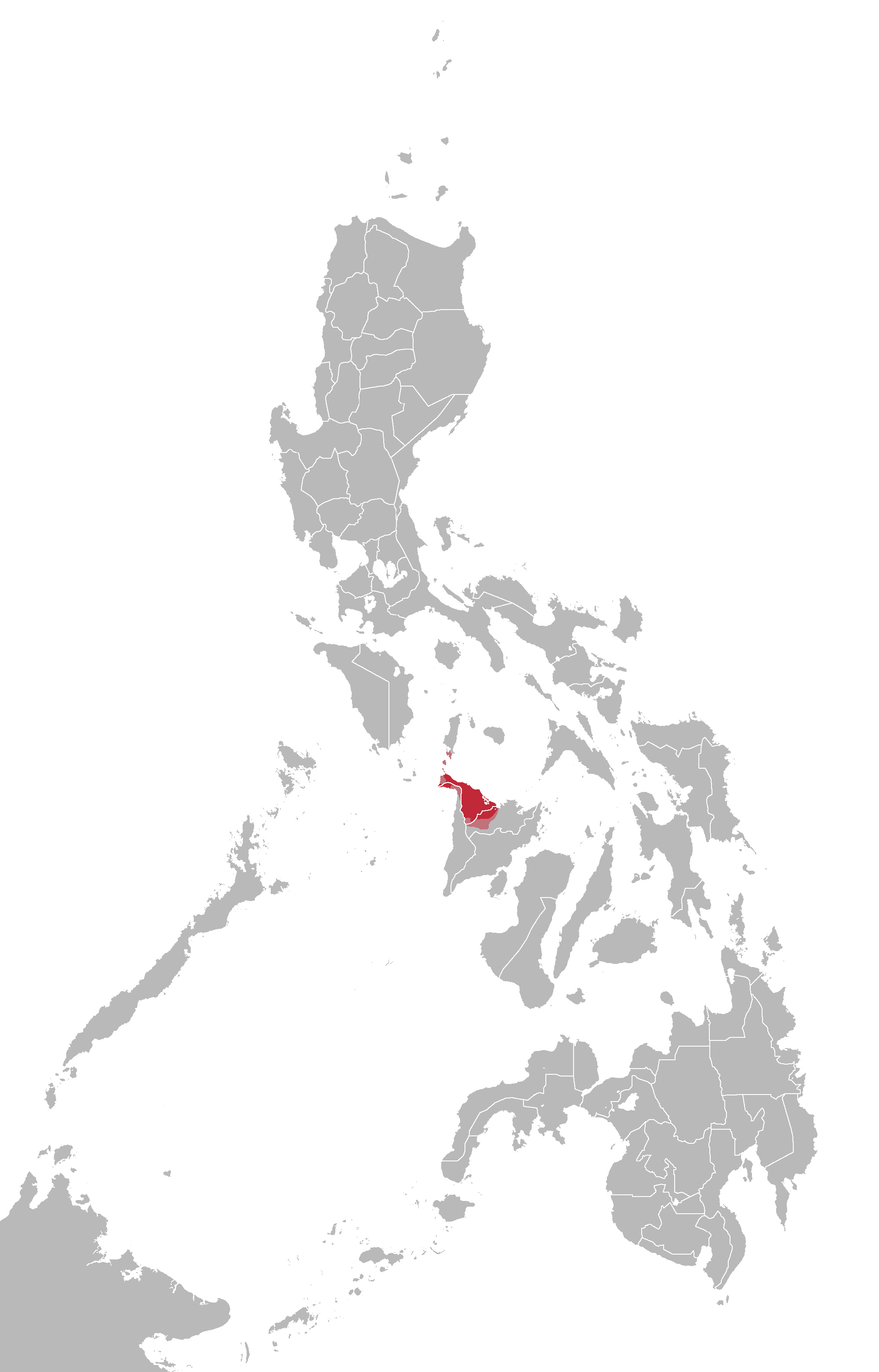 Aklanon language map based on Ethnologue maps